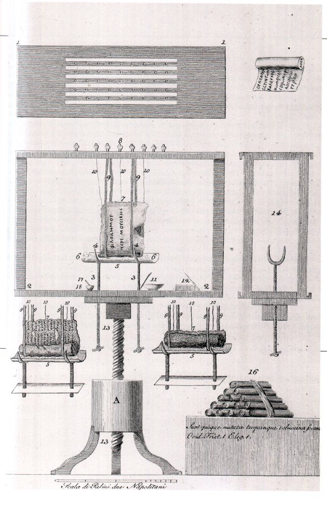 Device to unroll papyri, Napoli. Abbot Antonio Piaggio developed this machine.